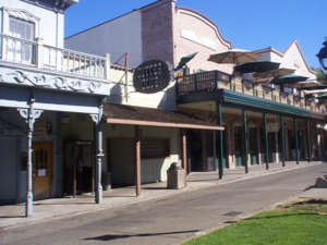 Historic Sutter Street, Folsom California